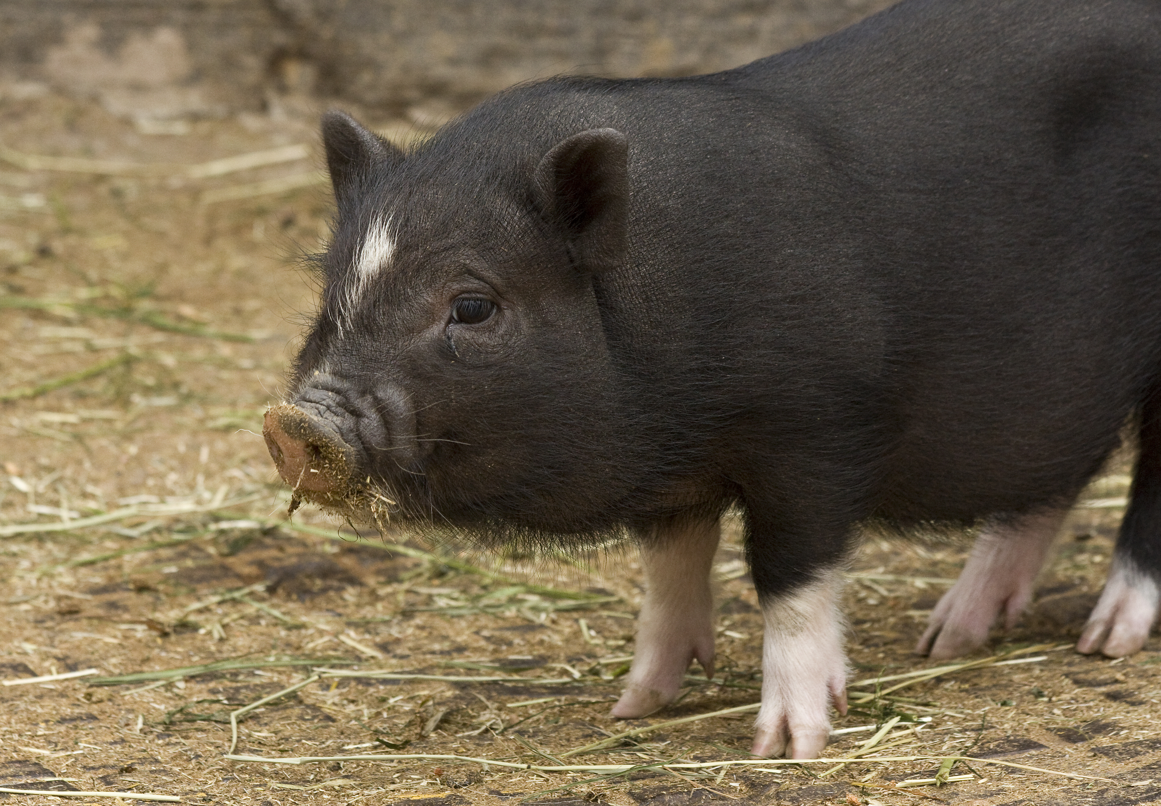 A miniature pig (Sus scrofa). Kolmårdens djurpark, Sweden.